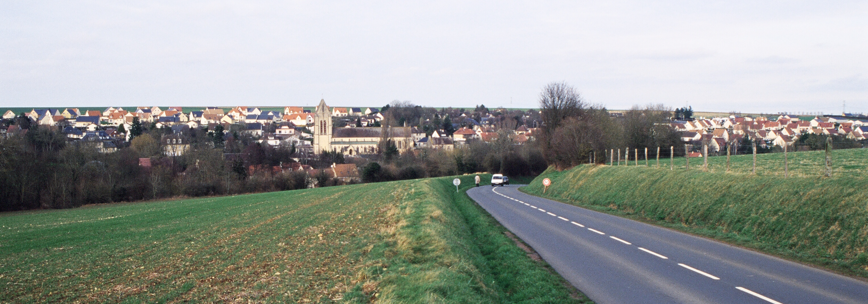 All-round view Evrecy